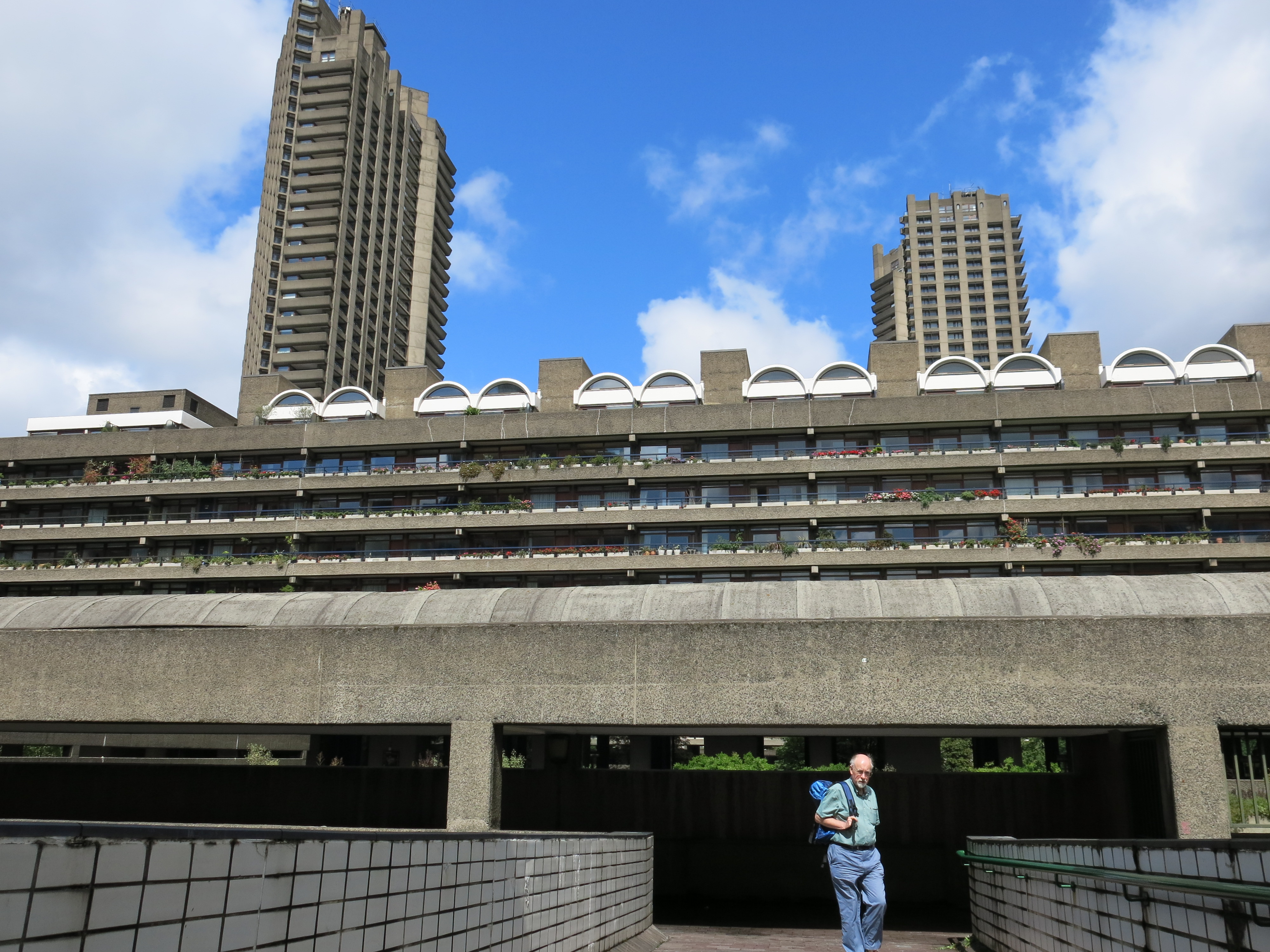 Barbican Estate